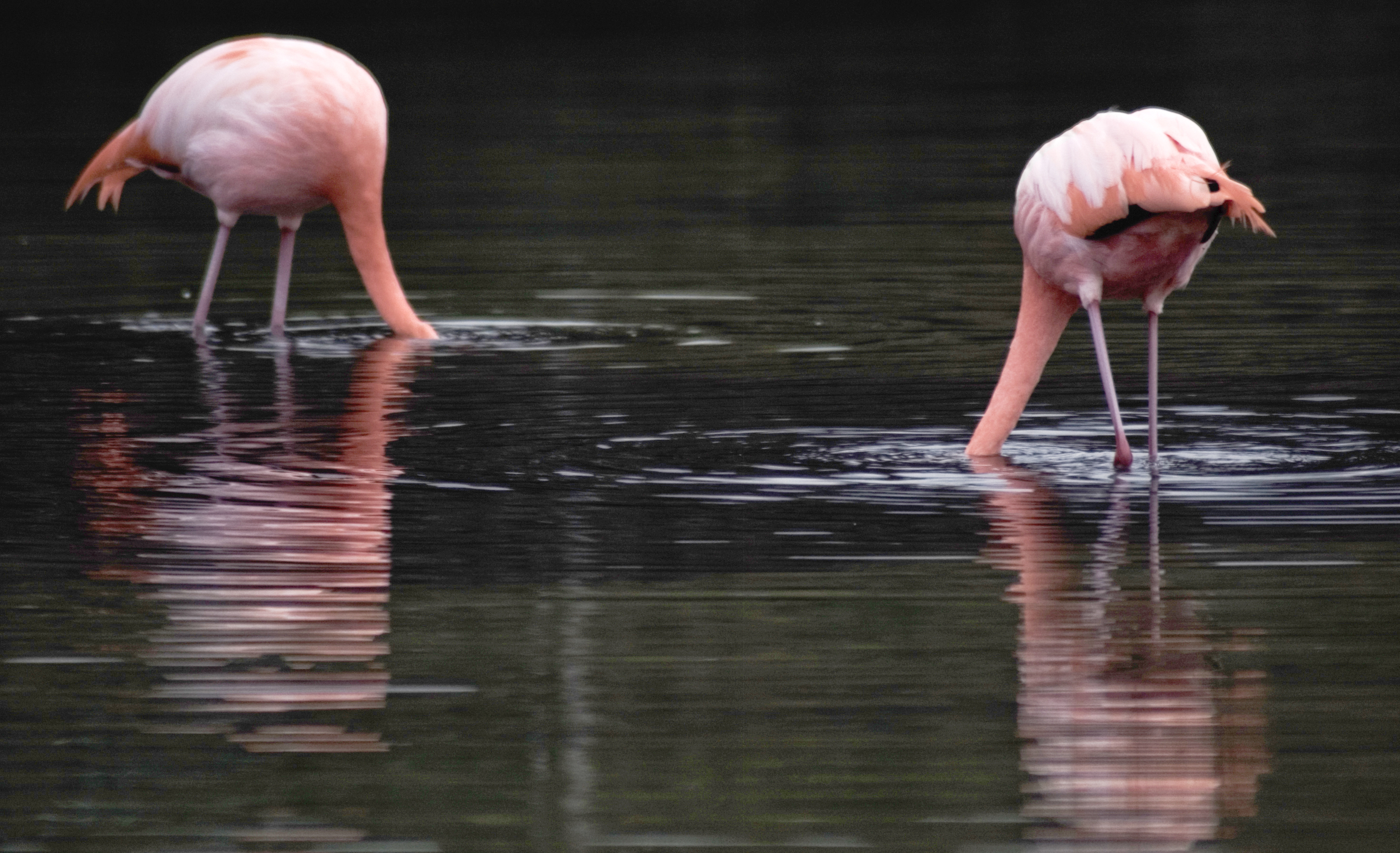 Phoenicopterus ruber, Galápagos Islands